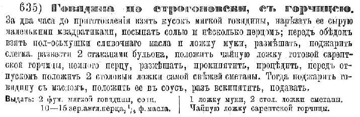 Beef Stroganoff recipe from the book A Gift to Young Housewives by Elena Molokhovets (1887 edition). The 1st edition of this book was published in 1861. The Beef Stroganoff recipe appeared first in the 1871 edition (according to Anne Volokh, The Art of Russian Cuisine, 1983)